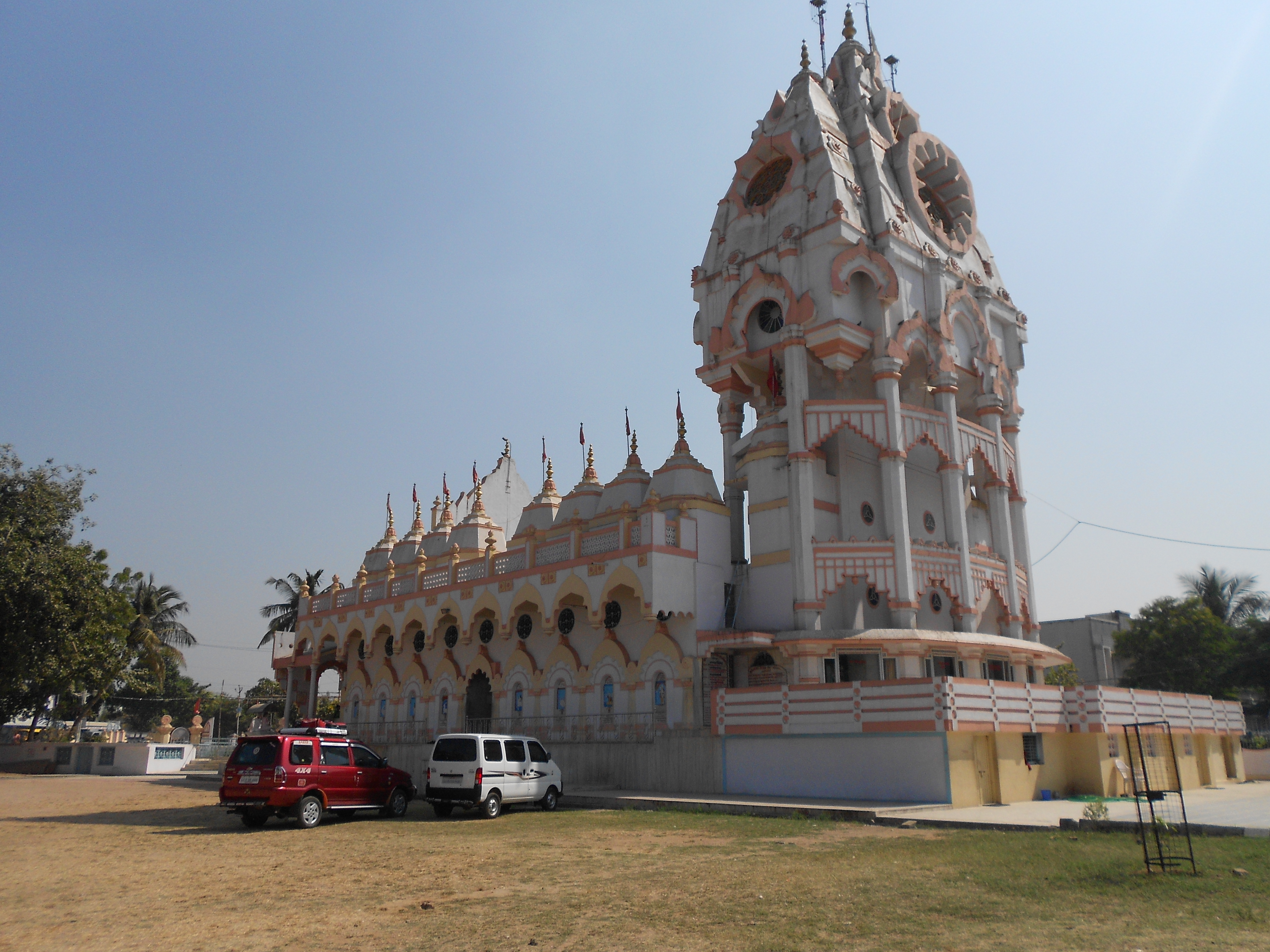 Sun temple, Borsad